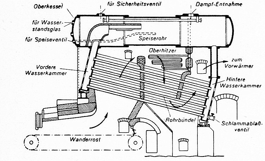 Schematic diagram of a simple inclined water-tube boiler. Index in German.